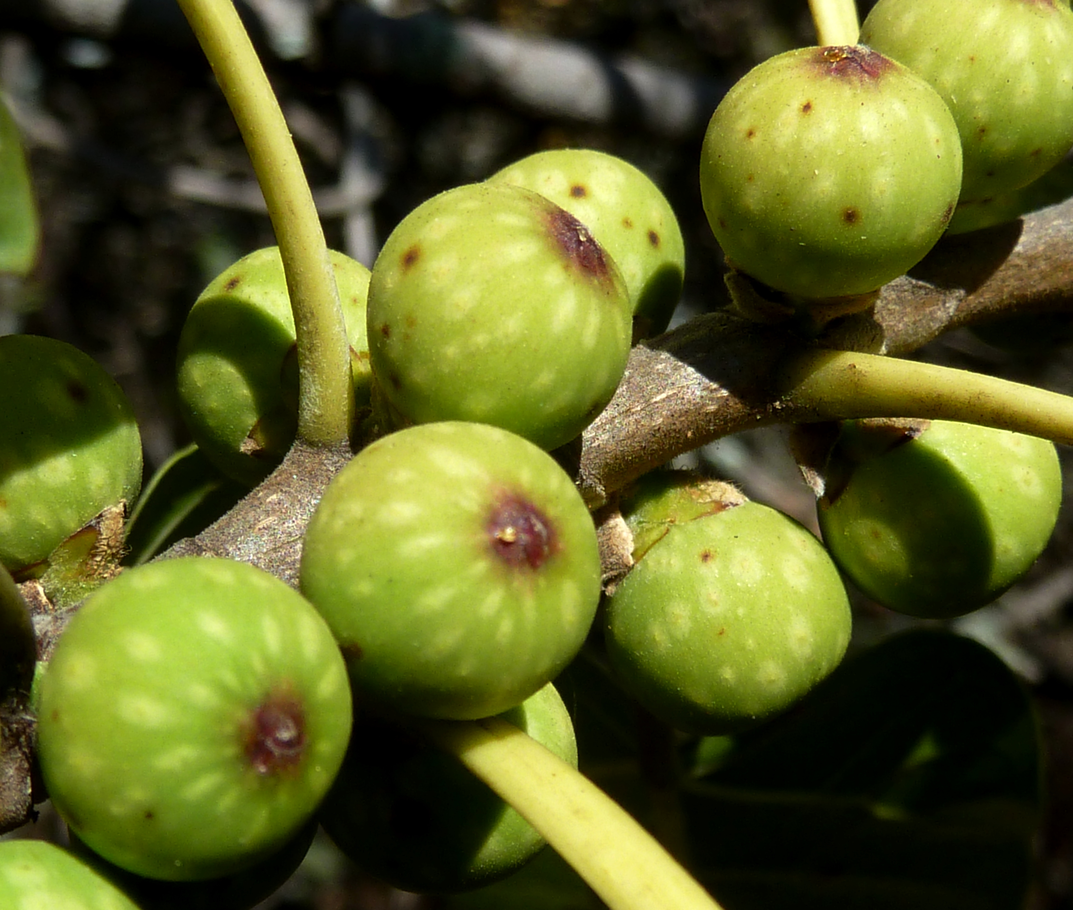 Placement of figs on a Red-leaved fig in Eugene Marais Park, Pretoria